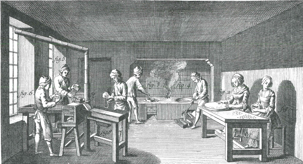 Casting printing types